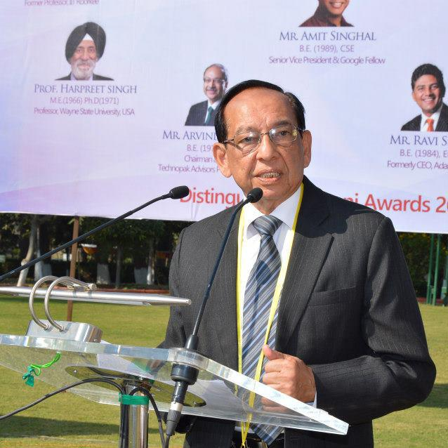 Harsh Gupta at IIT Roorkee, 2012